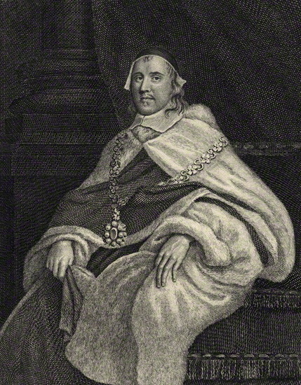 Sir John Glynne (1602-1666)